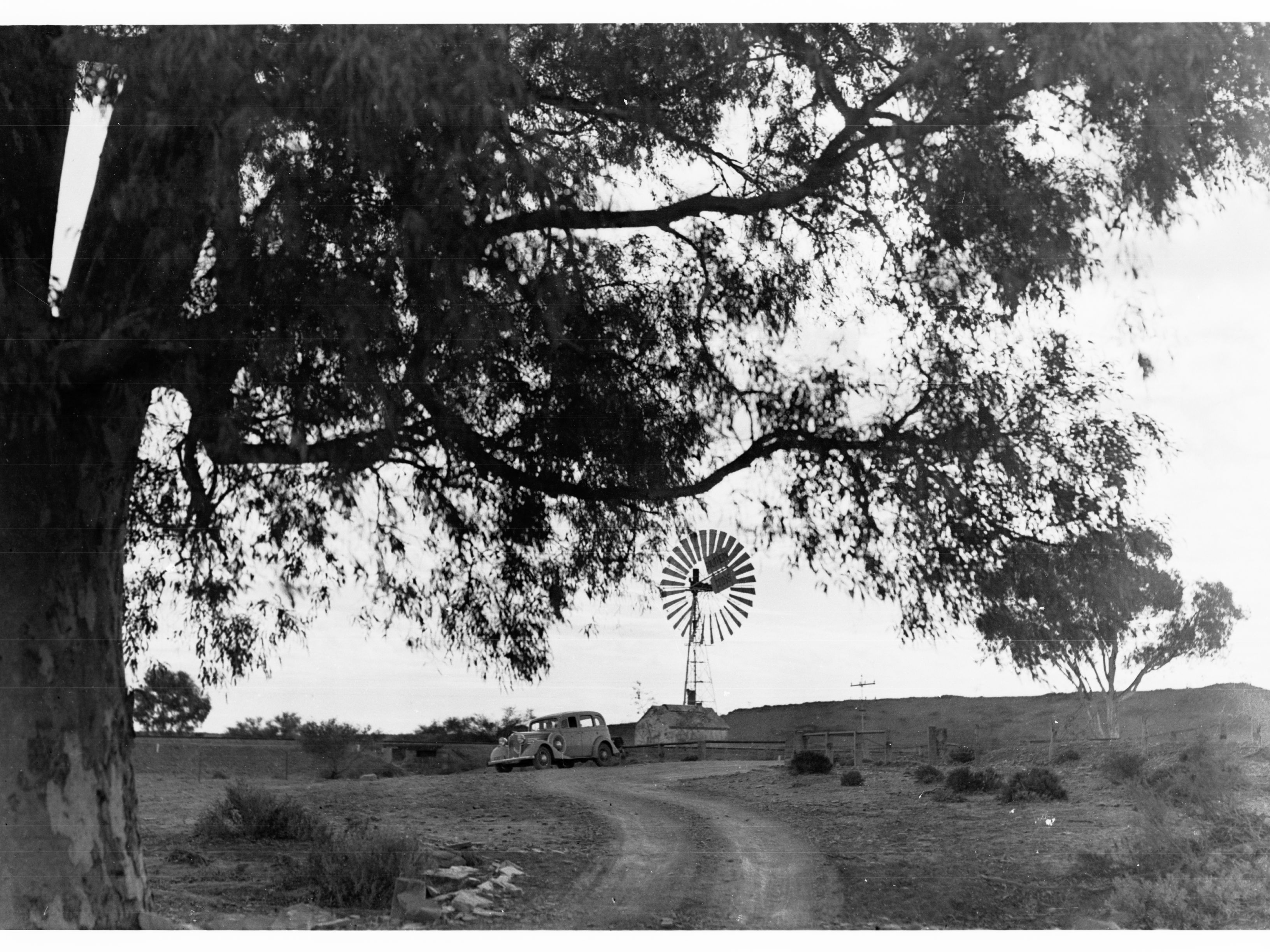 This photograph shows the five million gallon (about 22-megalitre) railway dam that supplied water for steam locomotives at Beltana. A stone wall was built across Graham's Creek in Beltana to divert water. A vehicle is also seen in the image, presumably Hurley's. This image is part of a series of photographs taken by Captain Frank Hurley in 1935. Also see GN05787.